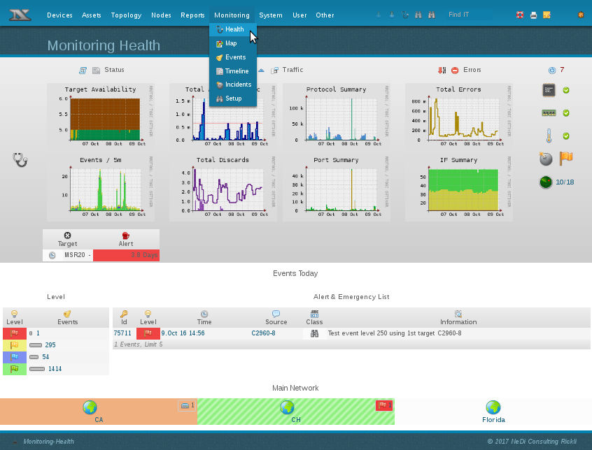 Monitoring dashboard showing the health of the network infrastructure